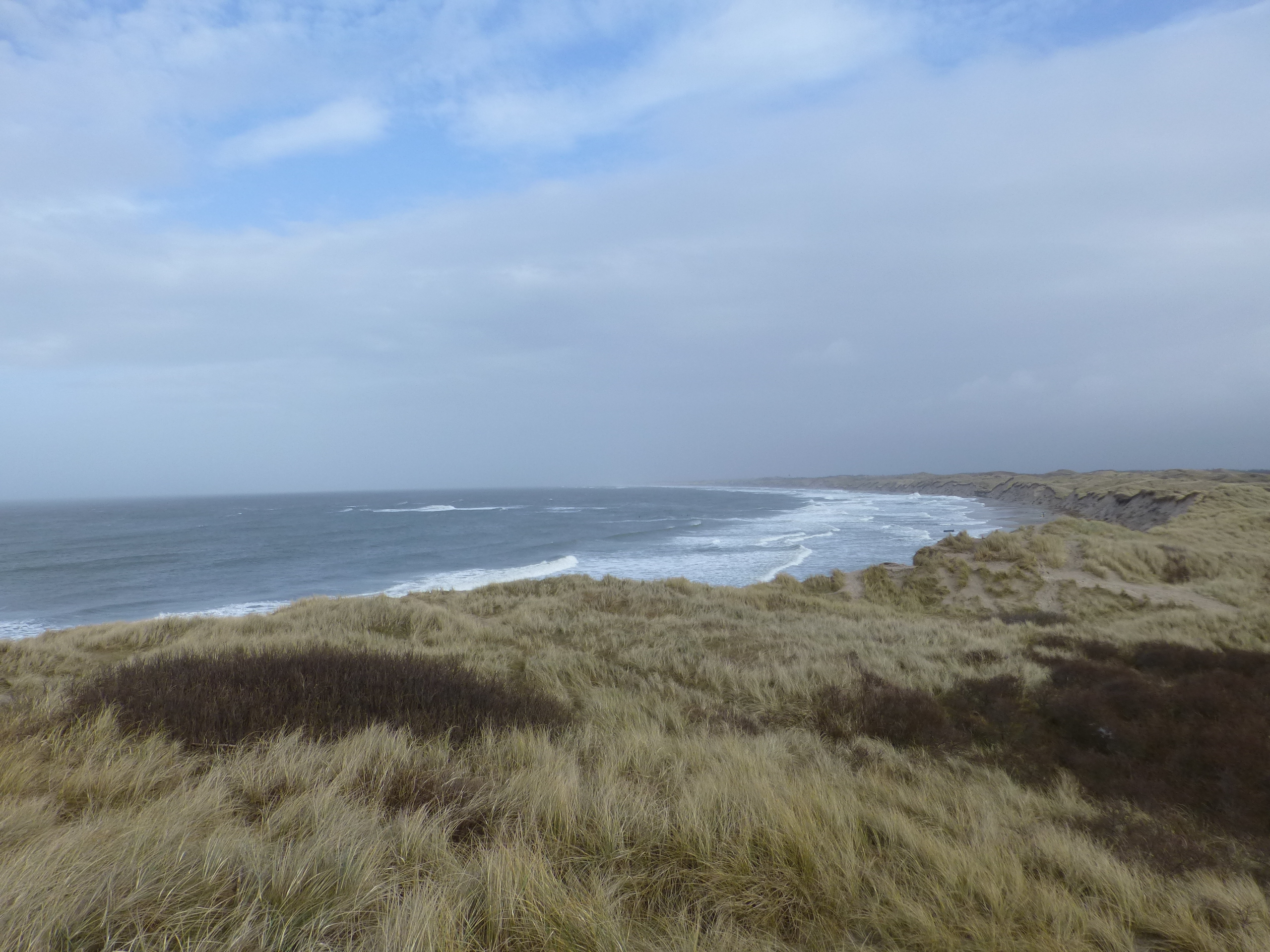 The North Sea coast at Nørre Vorupør in Thy in Denmark.